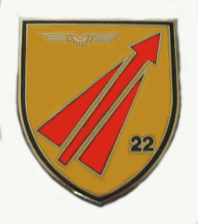 Air Force Anti Aircraft Missile Group 22